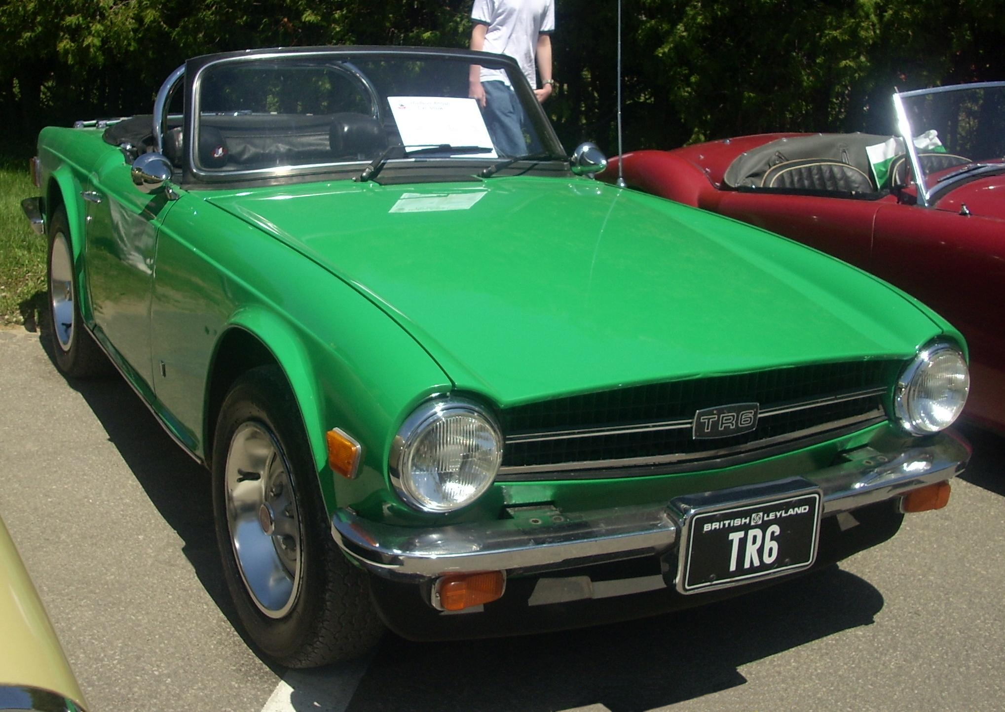 1976 Triumph TR6 photographed at the 2008 Hudson British Car Show.